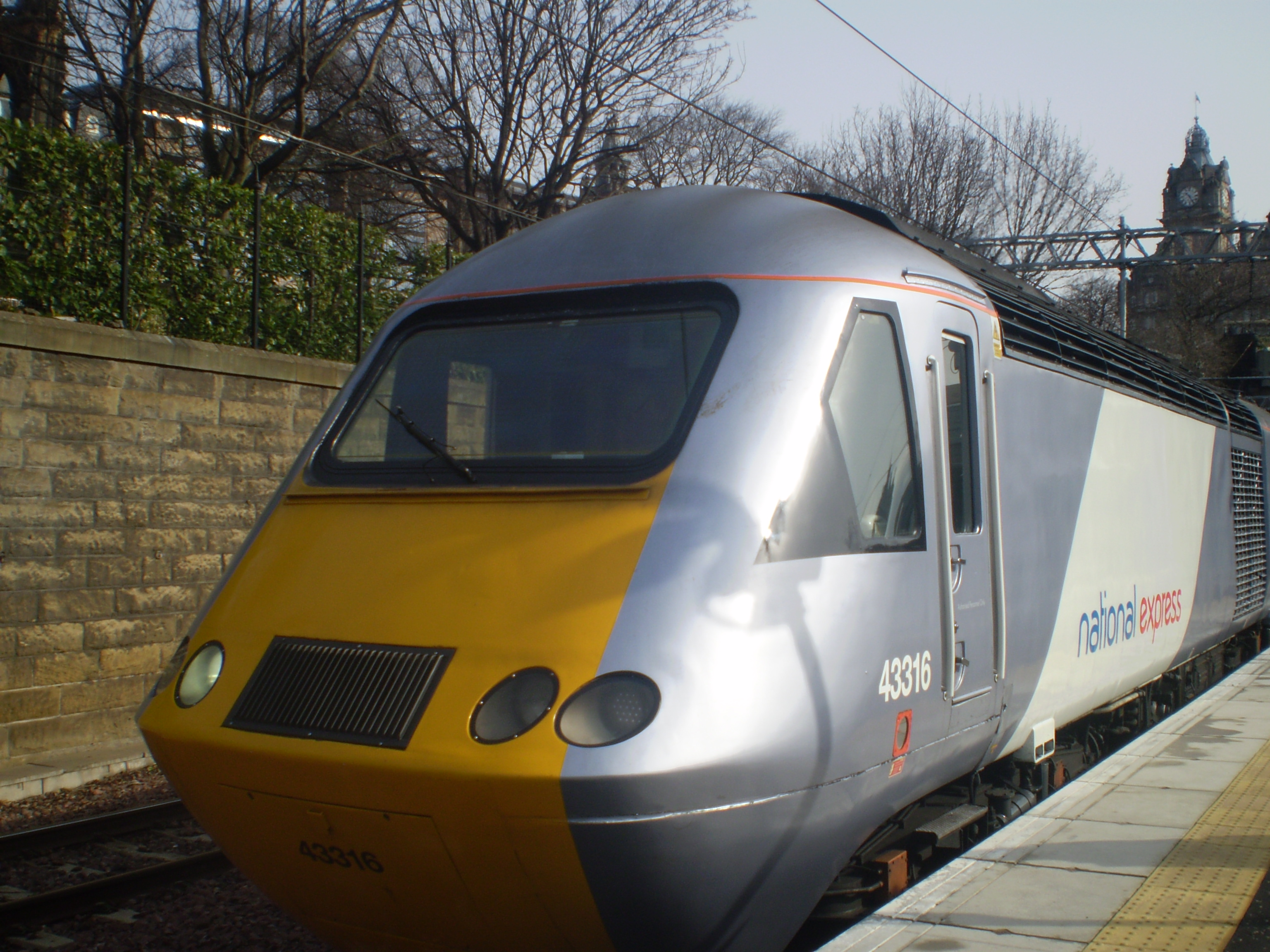 NXEC Re-Liveried HST at Edinburgh Waverley